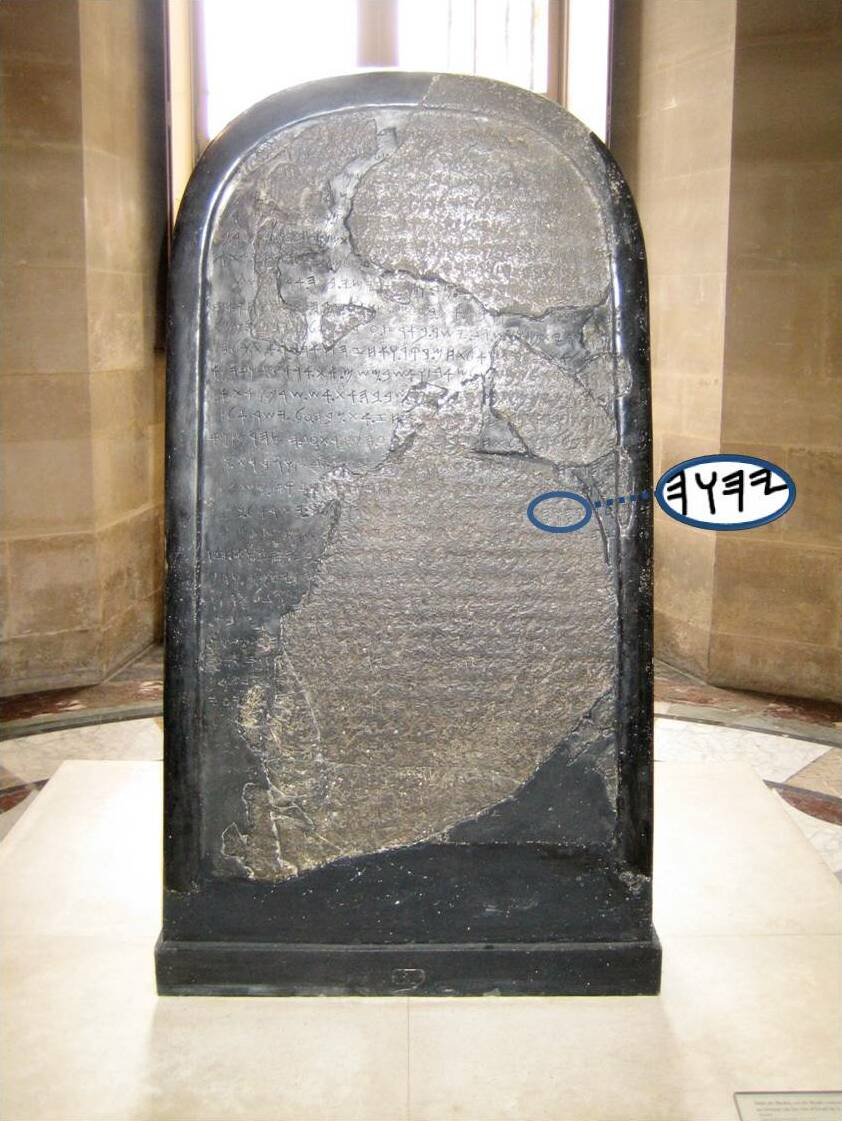 aka. the Moabite Stone (2007-05-19T14-10-19.jpg) Mesha Stele: YHWH, the god of Israelites as mentioned in the Moabite inscription in line 18 (context: and I took from there t[he ves]sels (or [altar he]arths) of YHWH and I dragged them before the face of Kemosh). Transliteration (modern Hebrew characters): יהוה